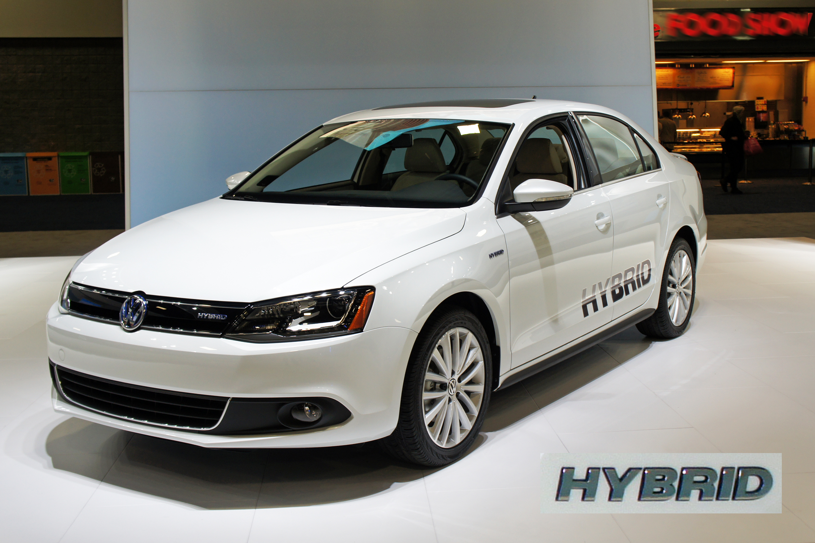 2013 VW Jetta Hybrid exhibited at the 2012 Washington Auto Show (D.C.)